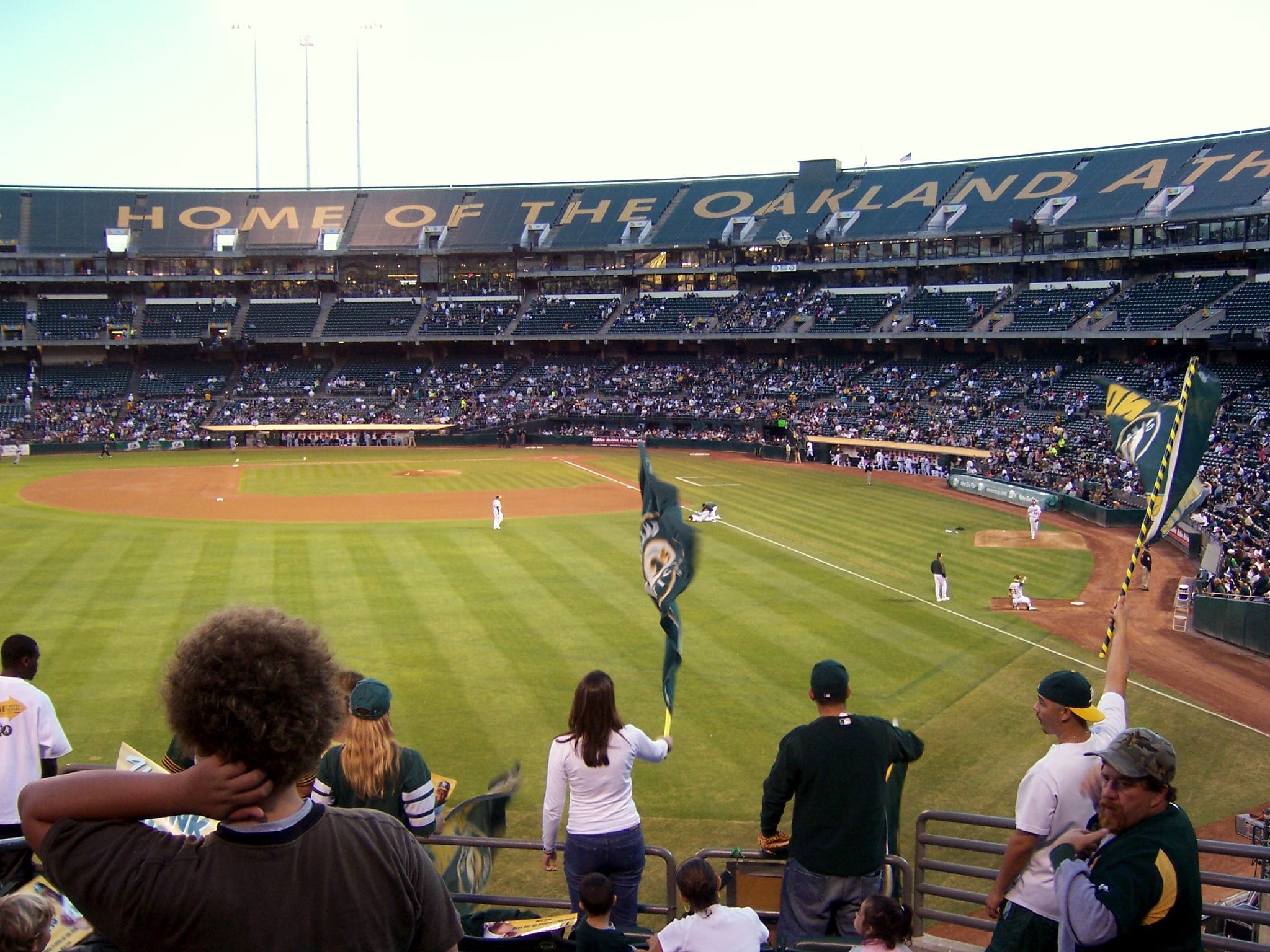 McAfee Coliseum Oakland, CAOakland Bleachers